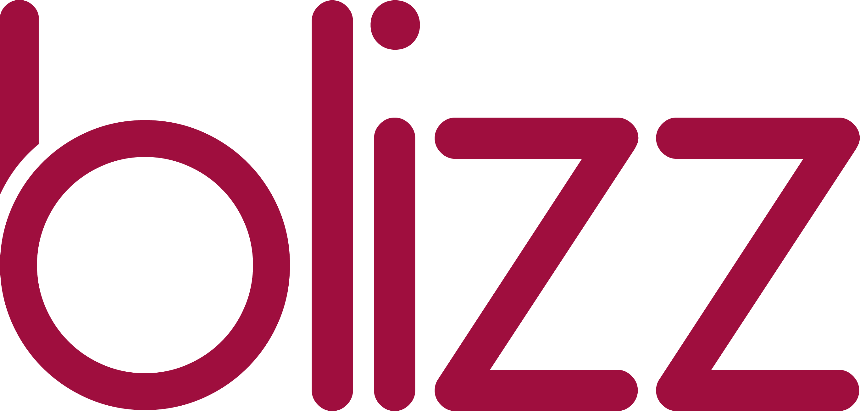 This is the logo of the german station Blizz TV